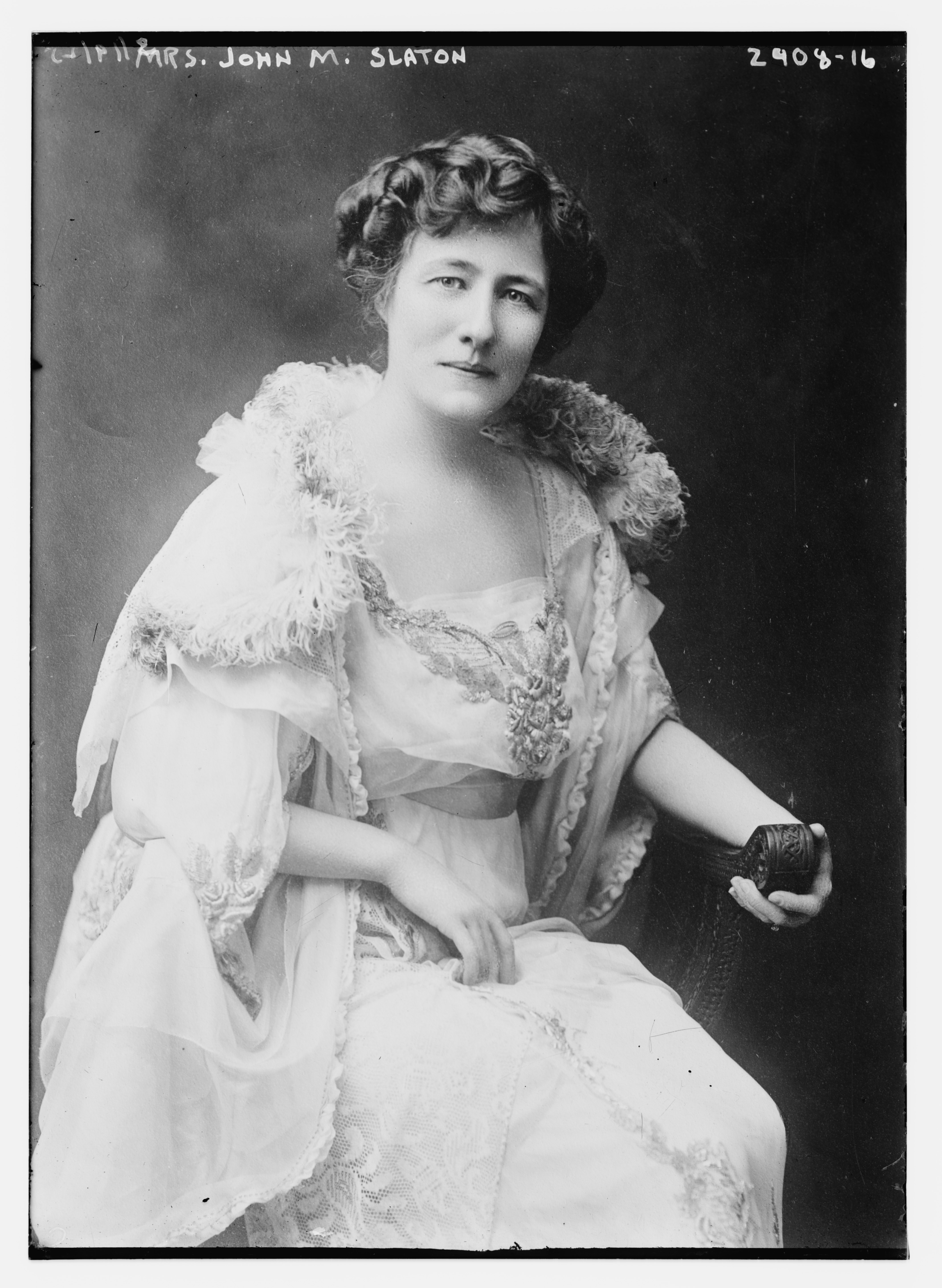 Title: Mrs. John M. Slaton Abstract/medium: 1 negative : glass ; 5 x 7 in. or smaller.